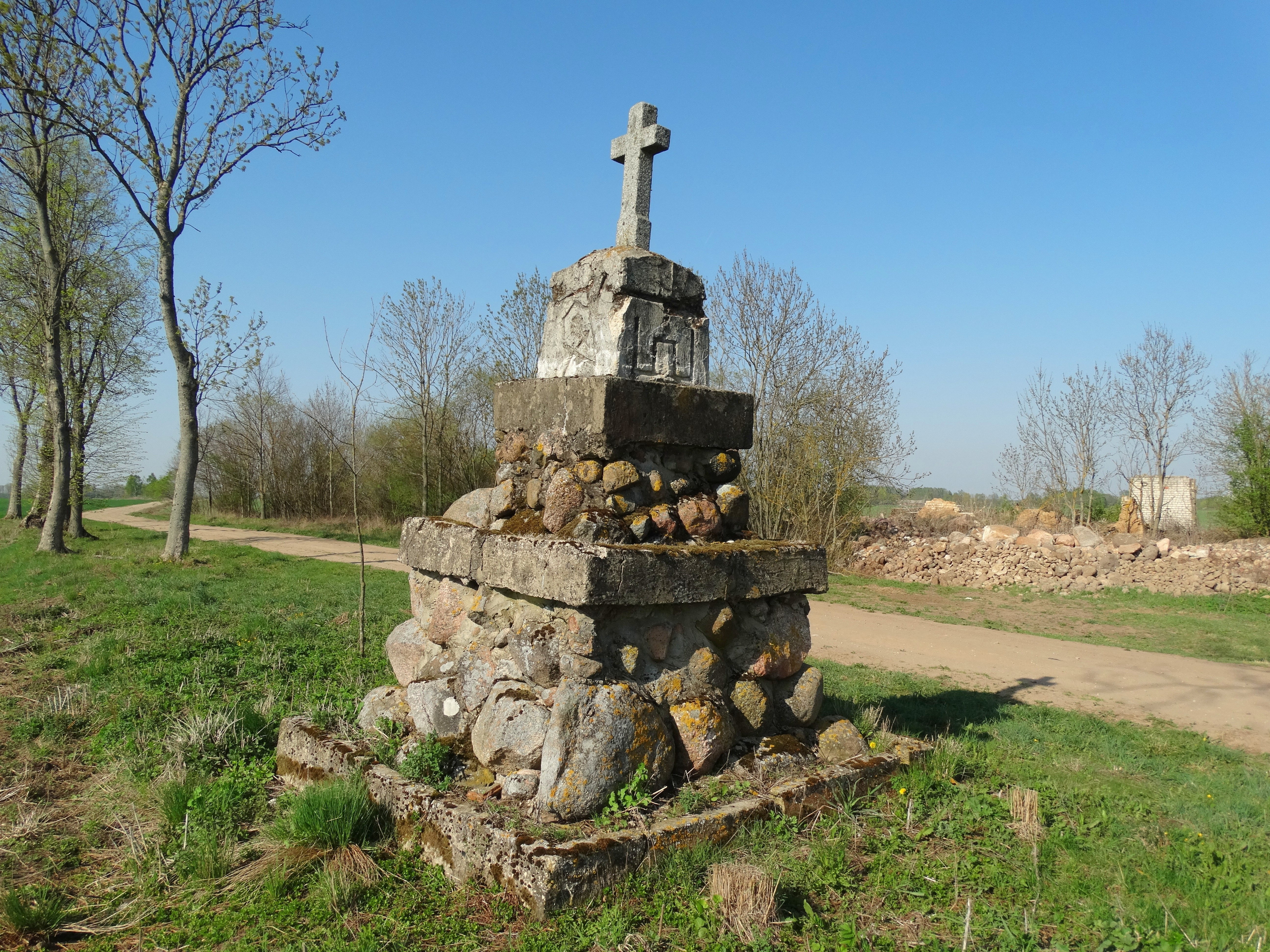 Monument to Vytautas the Great, Geniai (Radviliškis), Lithuania